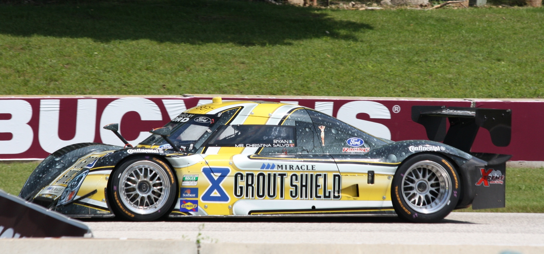 The Daytona Prototype of Ryan Dalziel and Mike Forest racing in Grand-Am sports car at Road America.